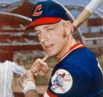 Professional baseball player Buddy Bell